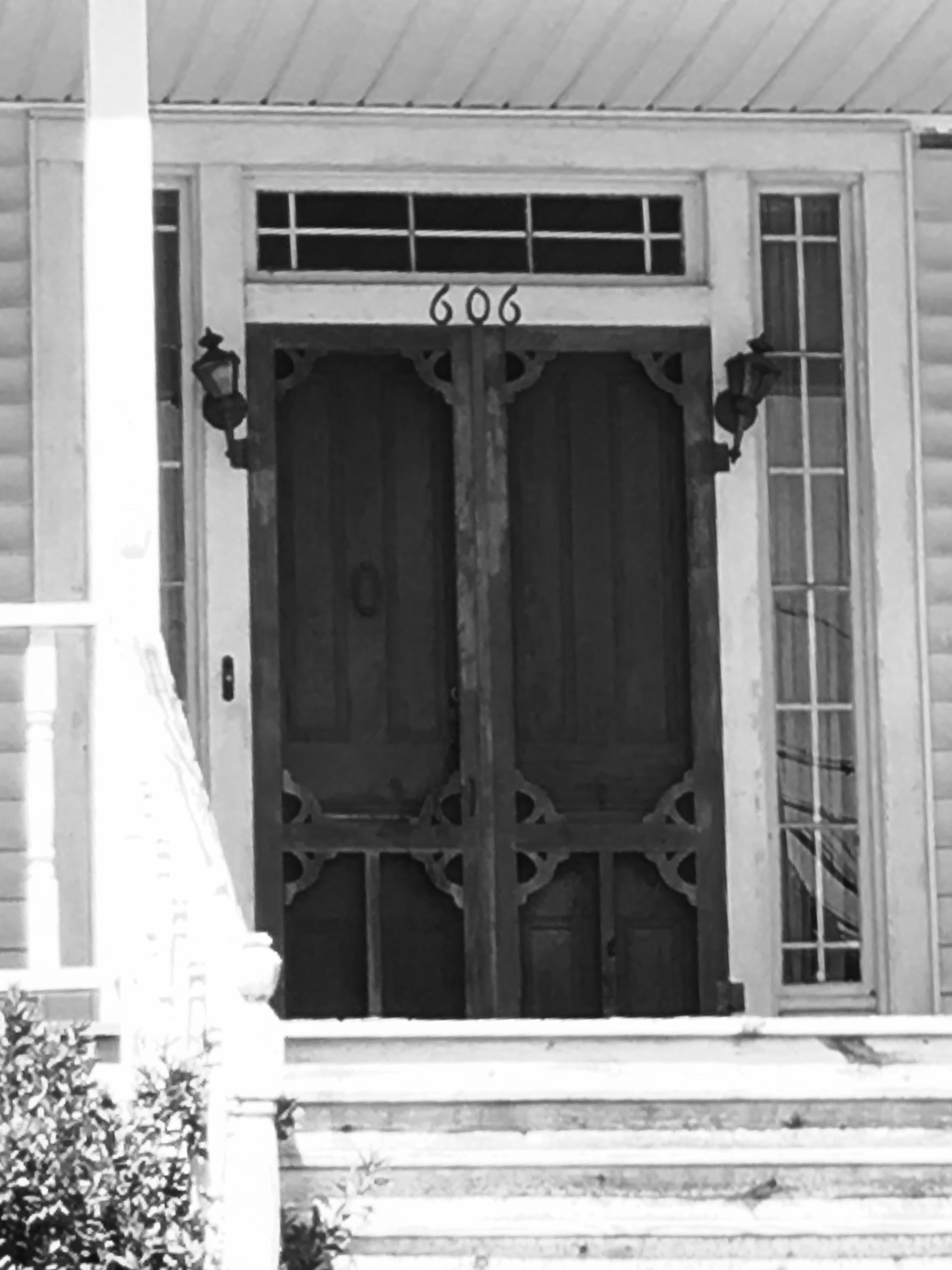 Decorative screen doors, Hix-Blackwell House, Laurens, South Carolina; part of the South Harper Historic District